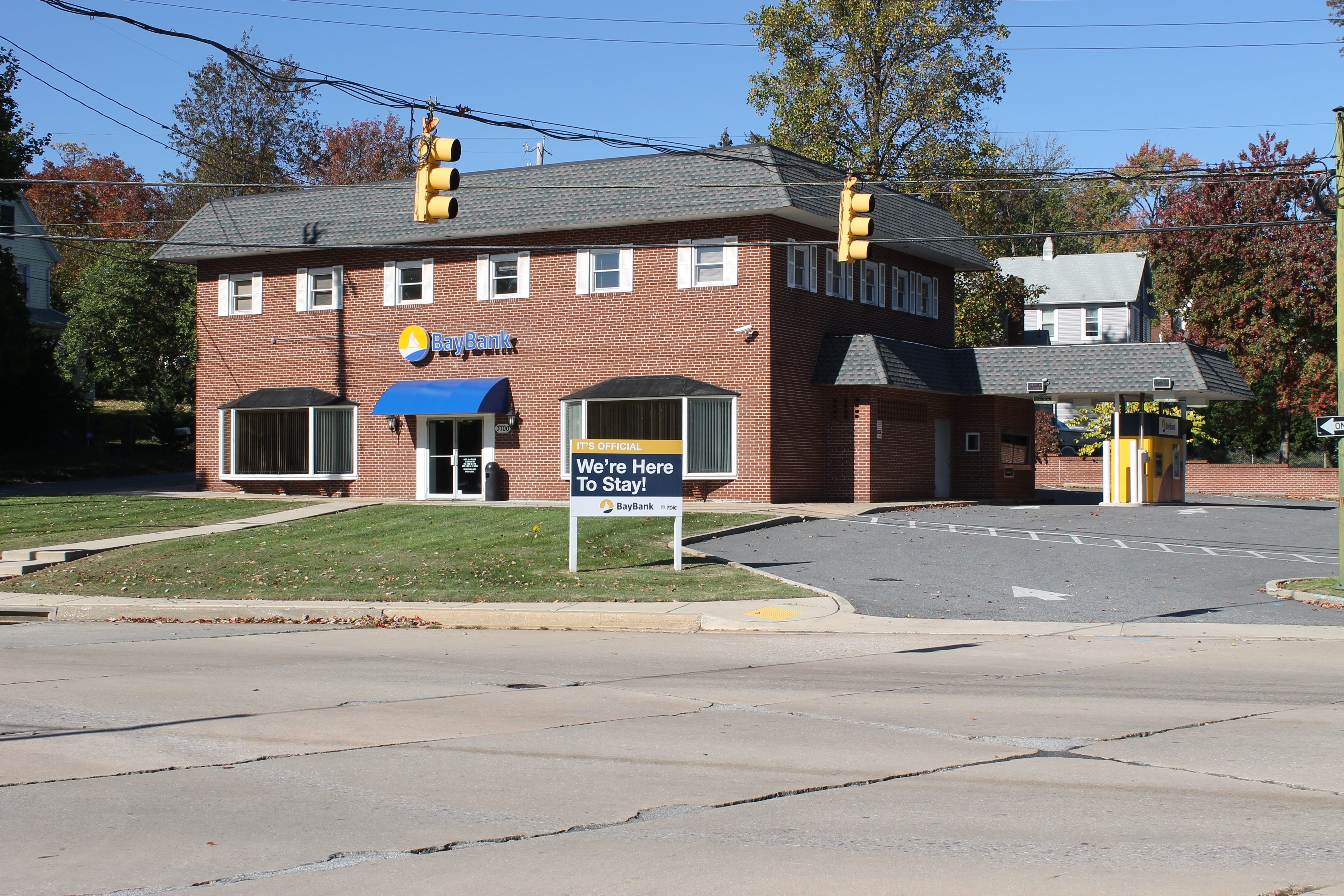 Bay Bank, Parkville, Maryland (formerly Slavie Federal Savings Bank). Slavie went out of business in 2014, after 114 years in operation, and was bought out by Bay Bank. Slavie was founded in 1900 as a savings and loans association to serve the Czech (Bohemian) immigrant community of Baltimore.